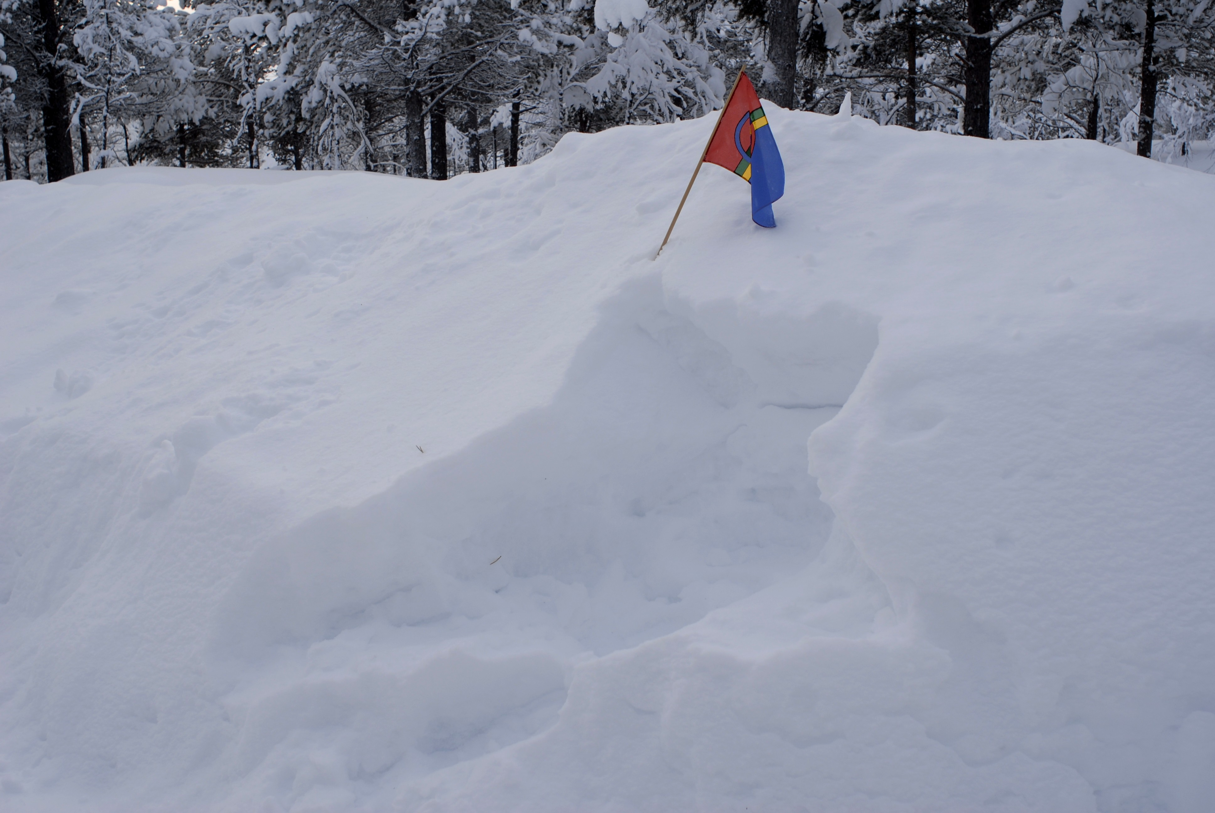 Sami National Day on February 6th. Davvisámegiella: Sámi álbmotbeaivi lea guovvamánu 6. beaivve. Guovvamánu 6.